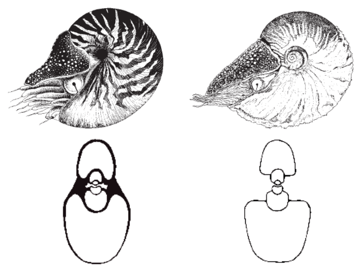 Shell characters of genus Nautilus vs. genus Allonautilus. After Jereb and Roper (2005), modified